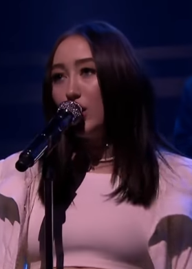 Noah Cyrus performing live Jan 15, 2018